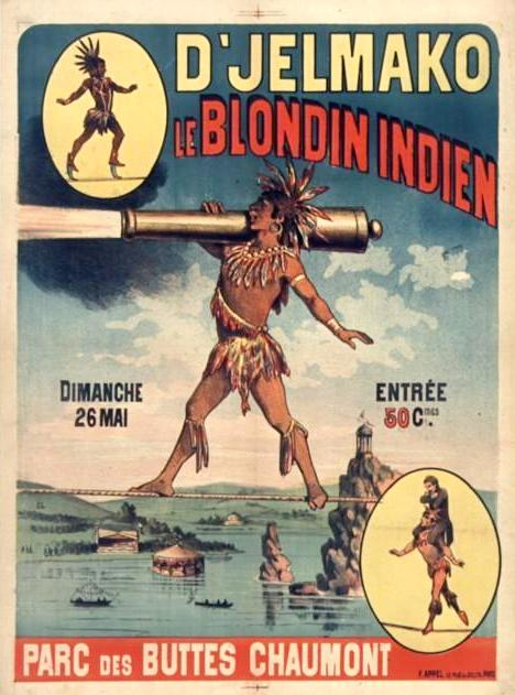 Poster of the Provençal artist D'Jelmako walking on a rope